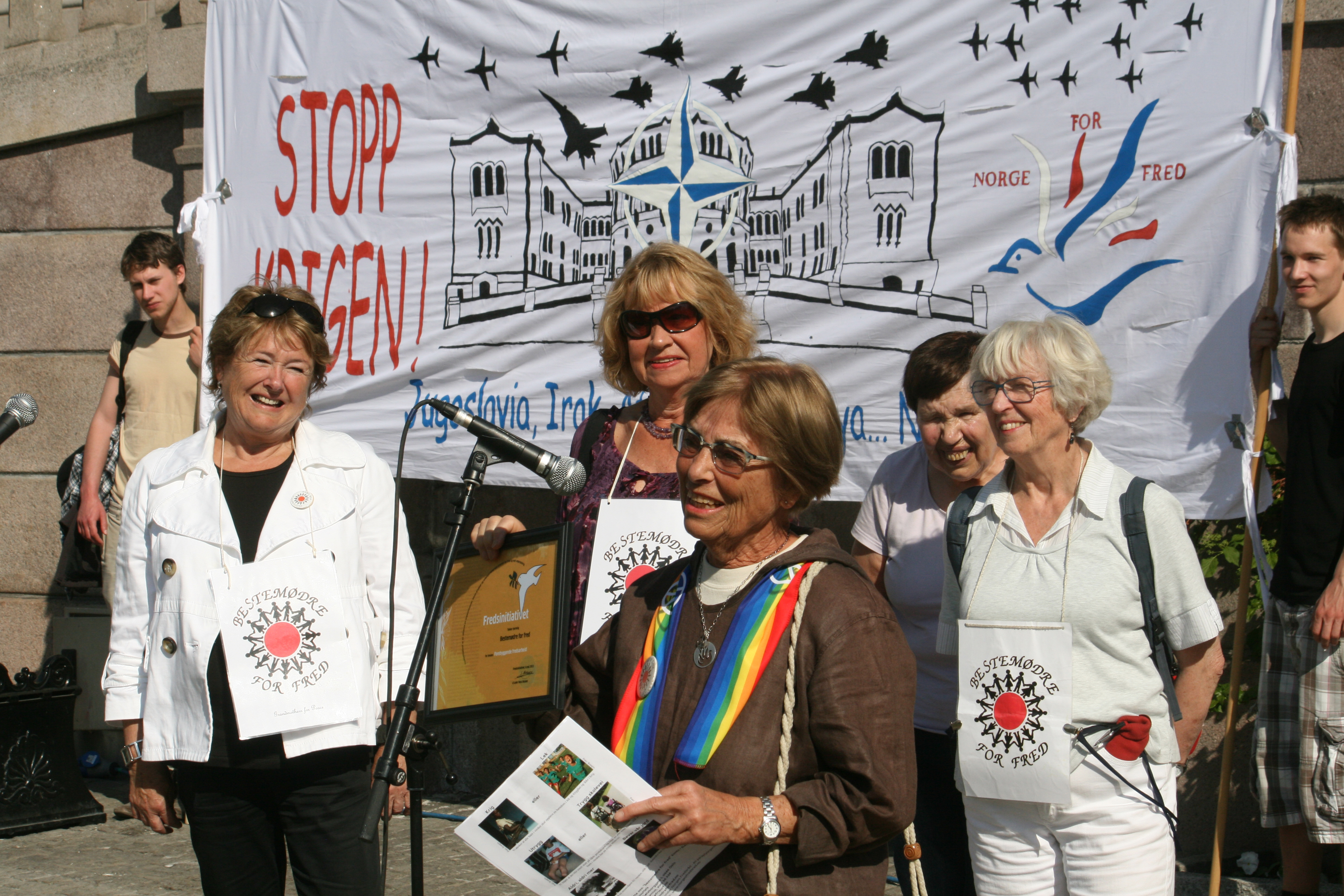 Grandmothers for peace was awarded the 2011 Fredsinitiativet peace prize.